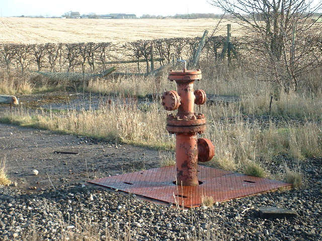 Brine Well Head. There are many of these in this area - this one is right by the roadside.